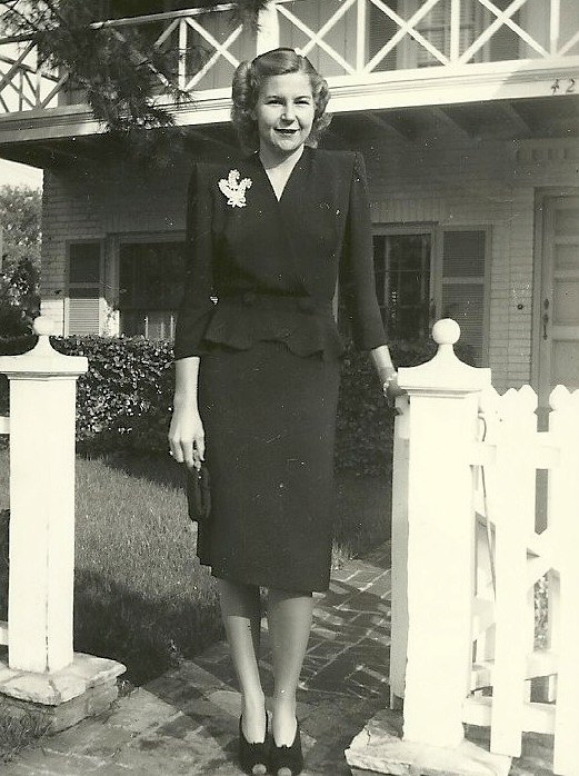 Louise Brough, American tennis champion.